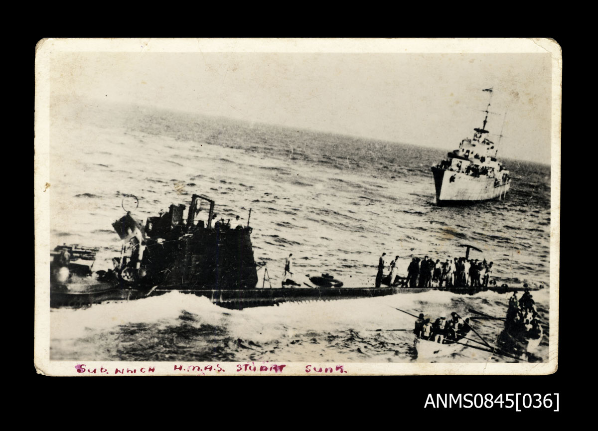 Able Seaman Arthur Thomas Wood was born 21 April 1921 at Berry in New South Wales, and joined the Royal Australian Navy in 1938 at the age of 17. After training at HMAS CEREBUS he joined HMAS SYDNEY in early 1939. When World War II was declared, SYDNEY was ordered to serve in the Mediterranean for escort duty. Wood was aboard SYDNEY when it sank the Italian cruisers ESPERO and BARTOLOMEO COLLEONI in July 1940. These photographs and postcards depict some of the sailors, equipment and activities of HMAS SYDNEY in the months prior to the sinking of the vessel. They provide an interesting commentary of the operations and work carried out aboard HMAS SYDNEY prior to its fateful end, such as the sinking of Italian ships ESPERO and BARTOLOMEO COLLEONI in the Mediterranean. The Australian National Maritime Museum undertakes research and accepts public comments that enhance the information we hold about images in our collection. If you can identify a person, vessel or landmark, write the details in the Comments box below. 30 September 1940. HMAS Stuart and Alexandria base RAF Sunderland aircraft of 230 Squadron sank the Gondar in 31, 33N, 28, 33E. Stuart and antisubmarine trawler Sindonis (440grt)) rescued forty seven survivors. Destroyer HMS Diamond arrived as Gondar was sinking. Thank you for helping caption this important historical image. Object number ANMS0845[036].